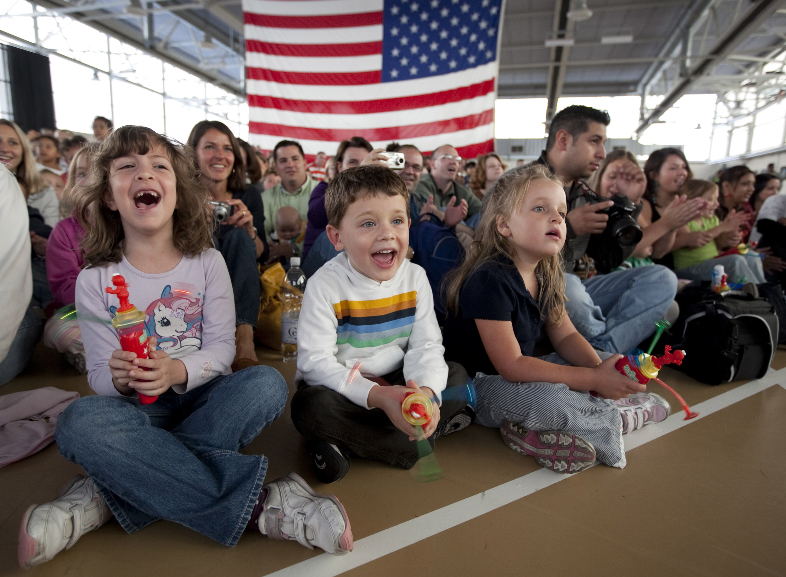 Francesca Gemmano, 6, Jackson Miller, 5, and Molly Waetzel, 6, react as Elmo comes on stage during the Sesame Street/USO Experience for Military Families at Chièvres Air Base in Belgium September 13, 2009.